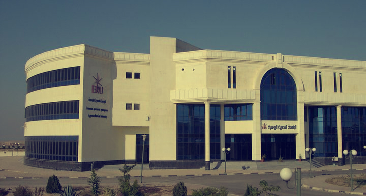 View of the Egyptian Russian University